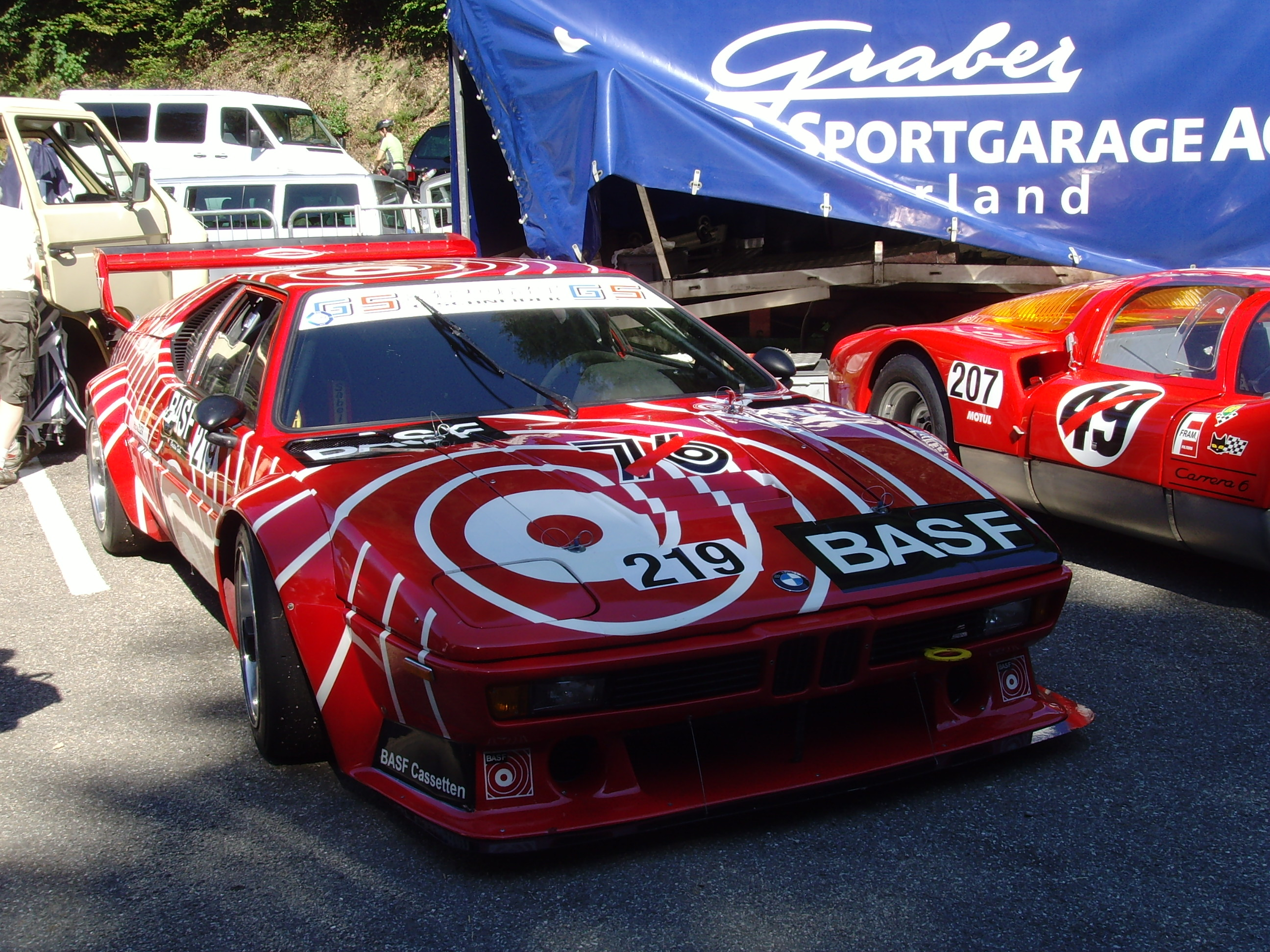 GS Tuning's BMW M1 Procar at the ADAC Schauinsland Klassik